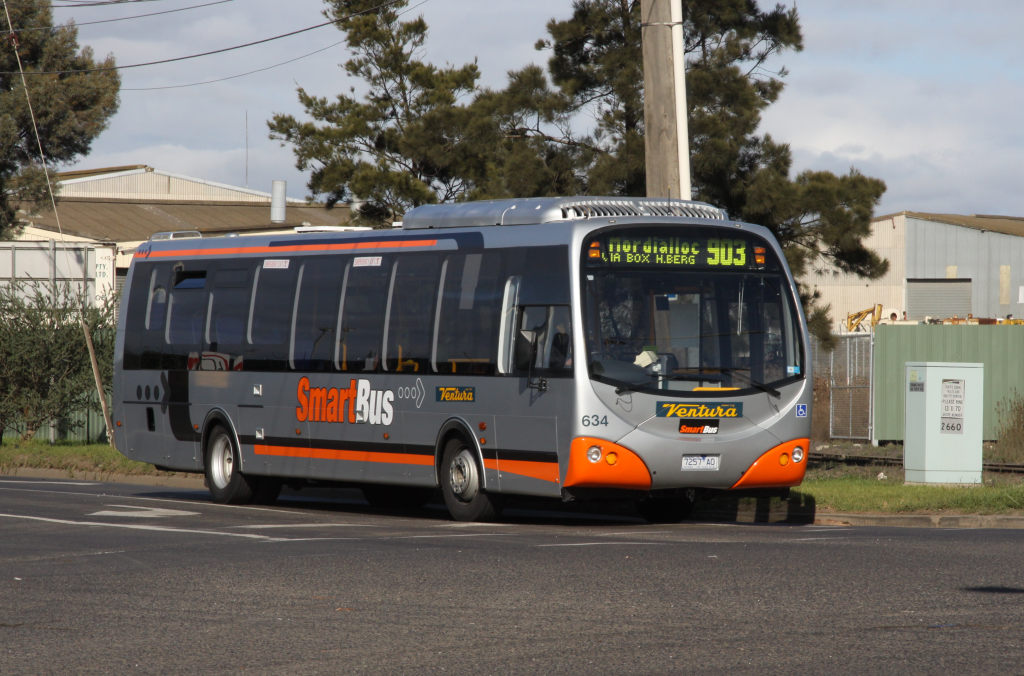 SmartBus liveried Ventura bus 634, rego 7275AO. On route 903 northbound at McDonald Road and Somerville Road, Brooklyn